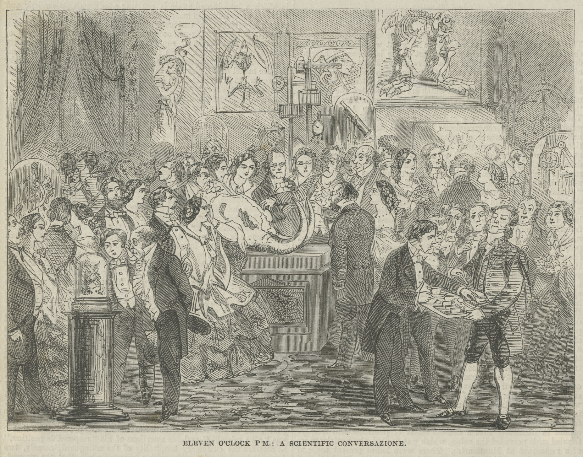 Twice Round the Clock, Eleven O’Clock P.M.: A Scientific Conversazione The Welcome Guest William McConnell, 1858 Wood-engraving